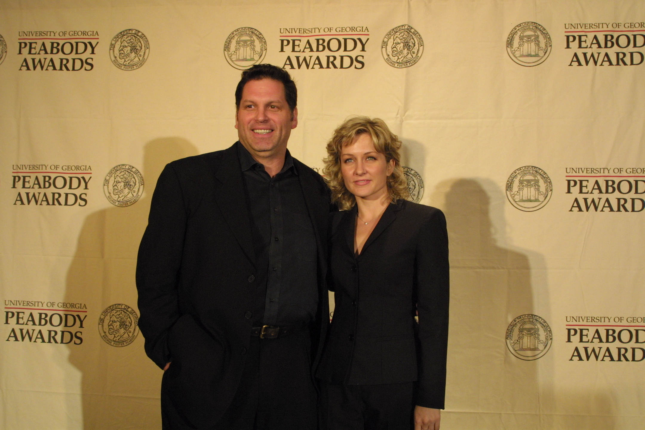 PHOTO CREDIT: ANDERS KRUSBERG / PEABODY AWARDS Skipp Sudduth and Amy Carlson, 61st Annual Peabody Awards Luncheon Waldorf=Astoria Hotel May 20, 2002